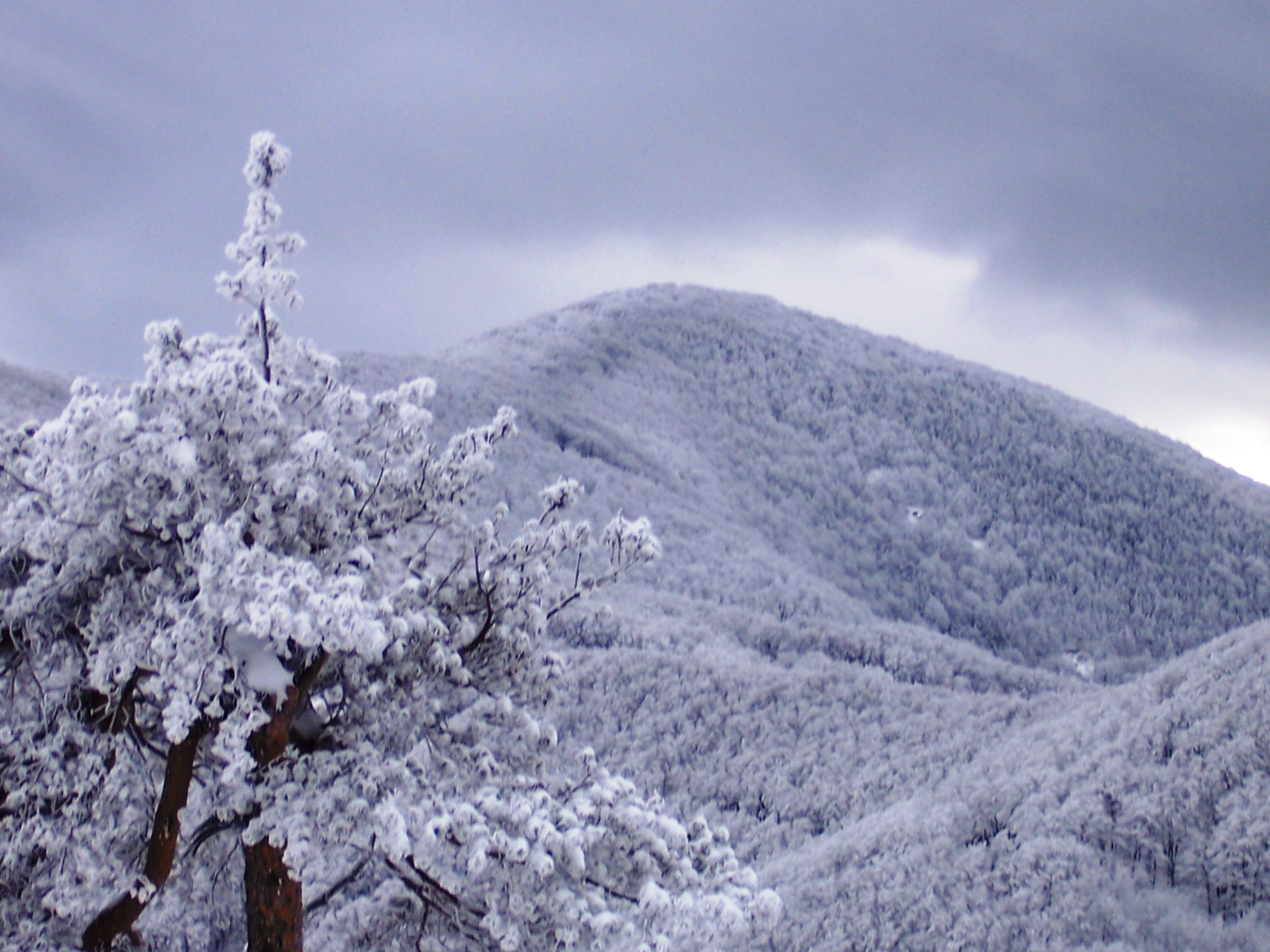 Winter scene taken at Shipka Pass in Bulgaria in January 2006.